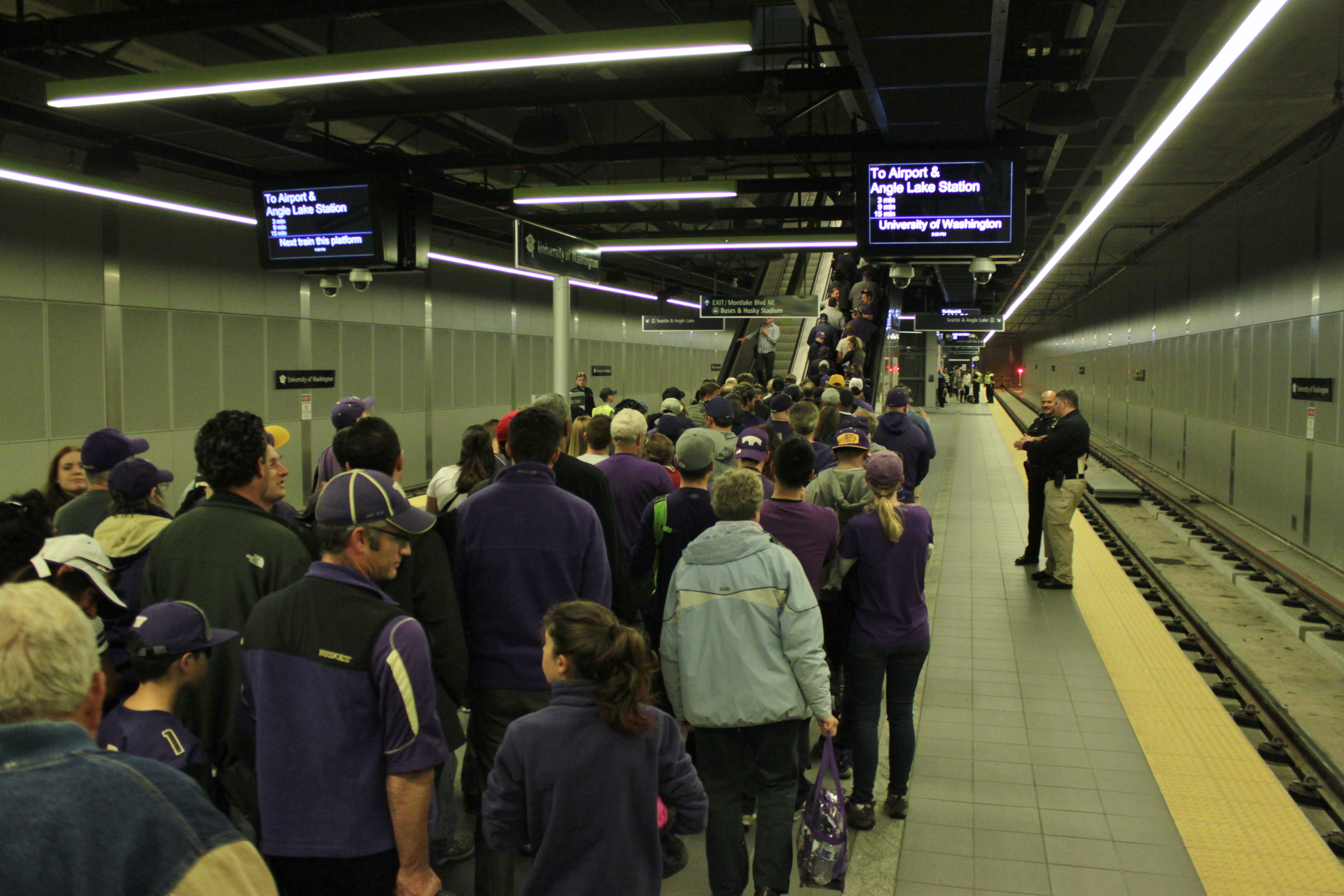 A queue for the escalator on the platform of University of Washington station prior to a football game at Husky Stadium